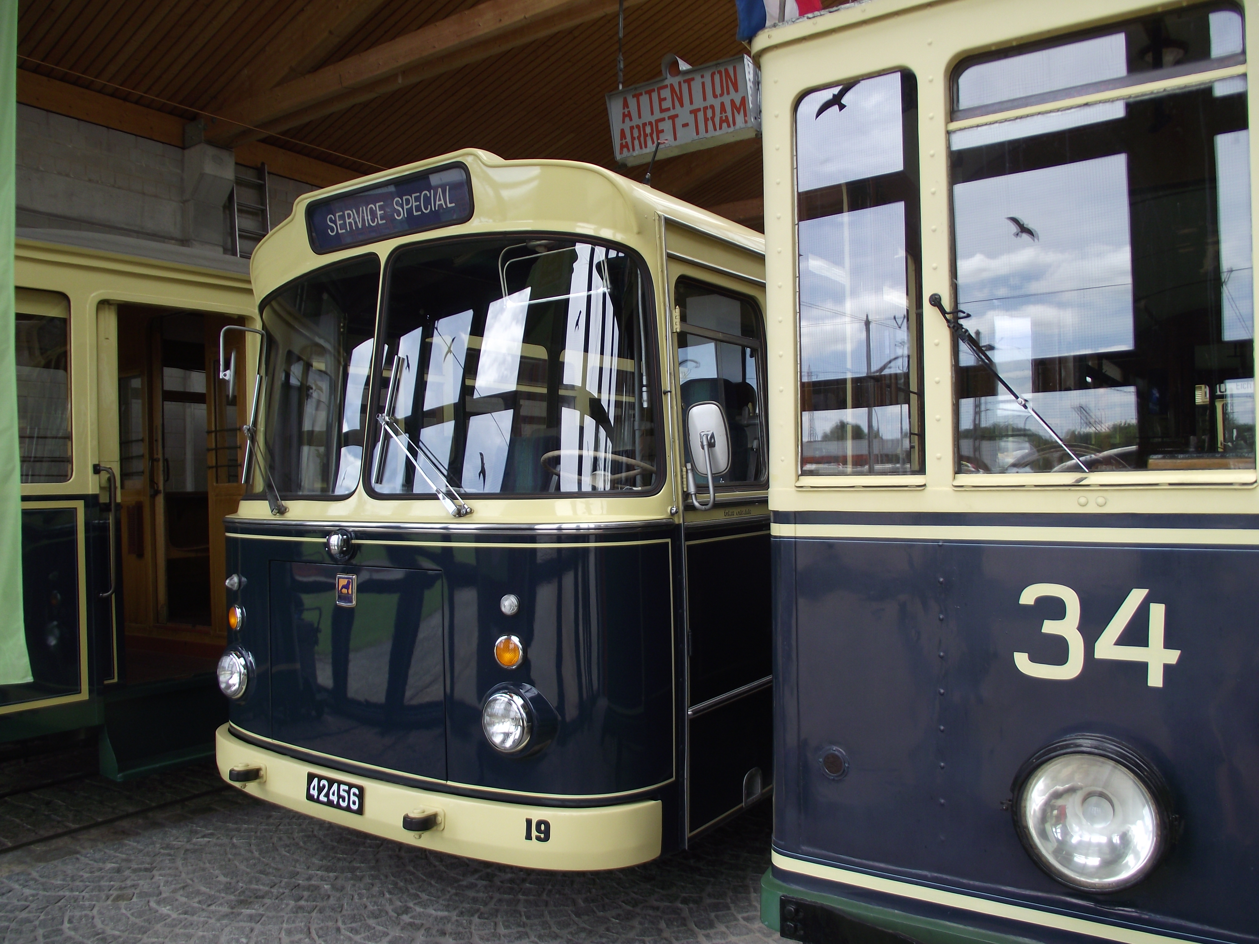 Trammuseum of Luxemburg